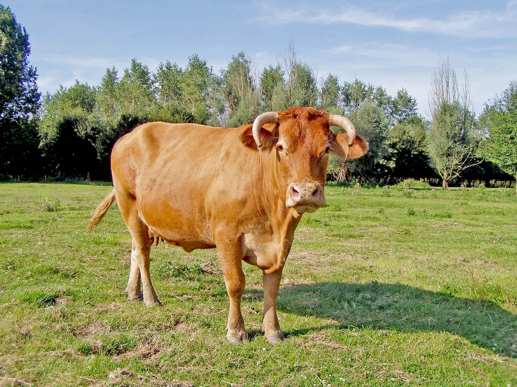 A cow, Oostvaardersplassen, The Netherlands.